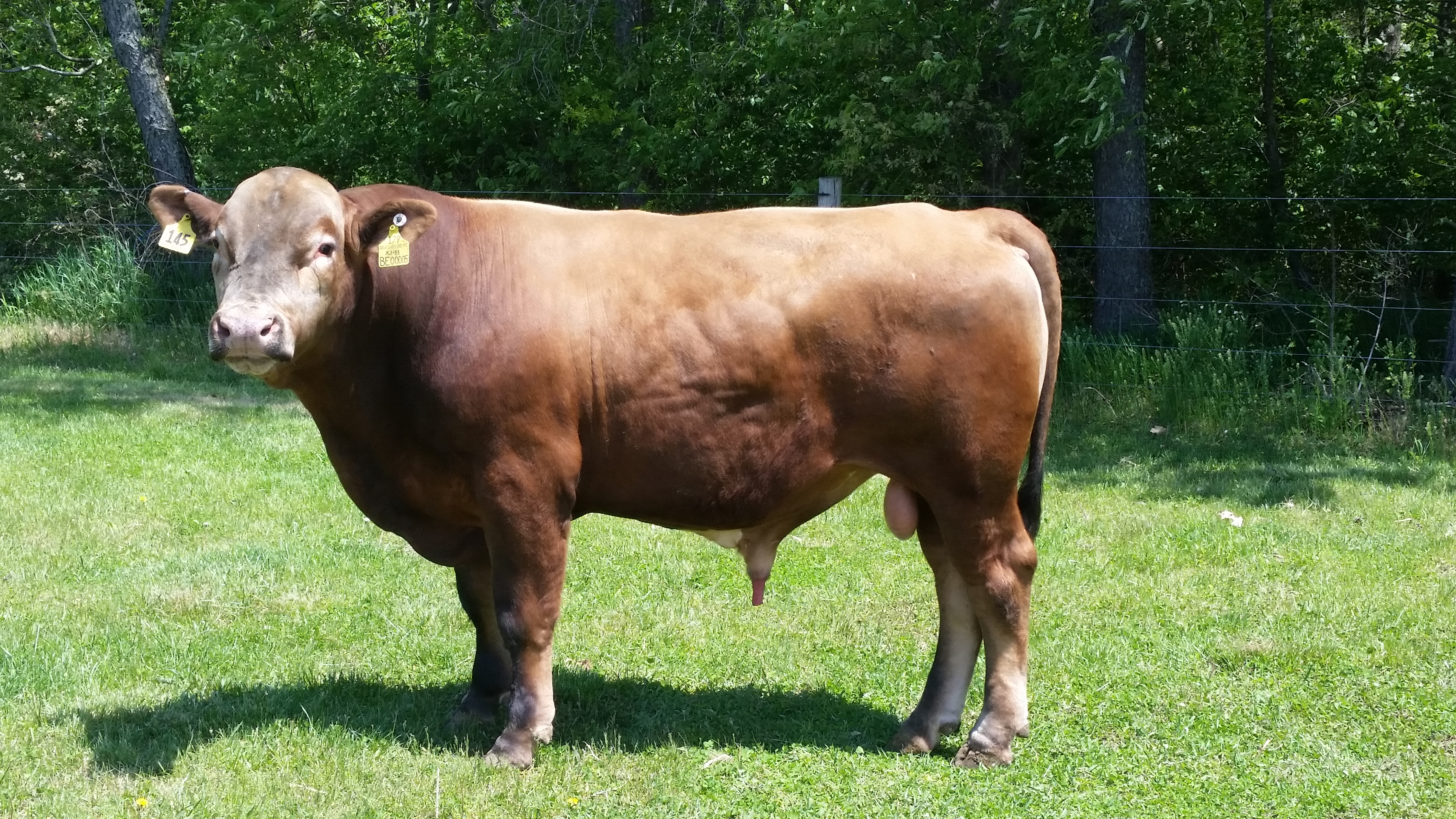 Image of a beefalo bull